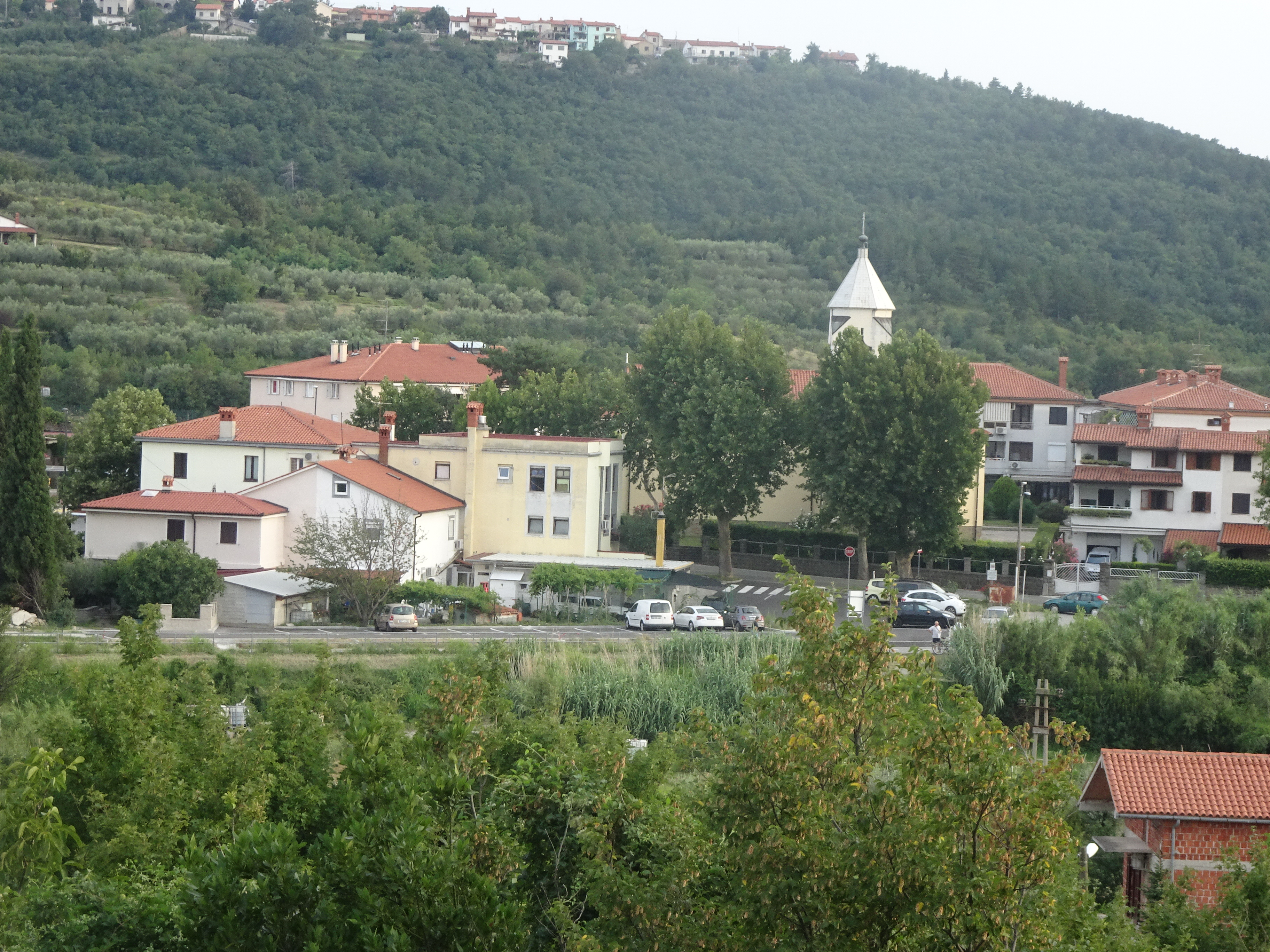 Spodnje Škofije